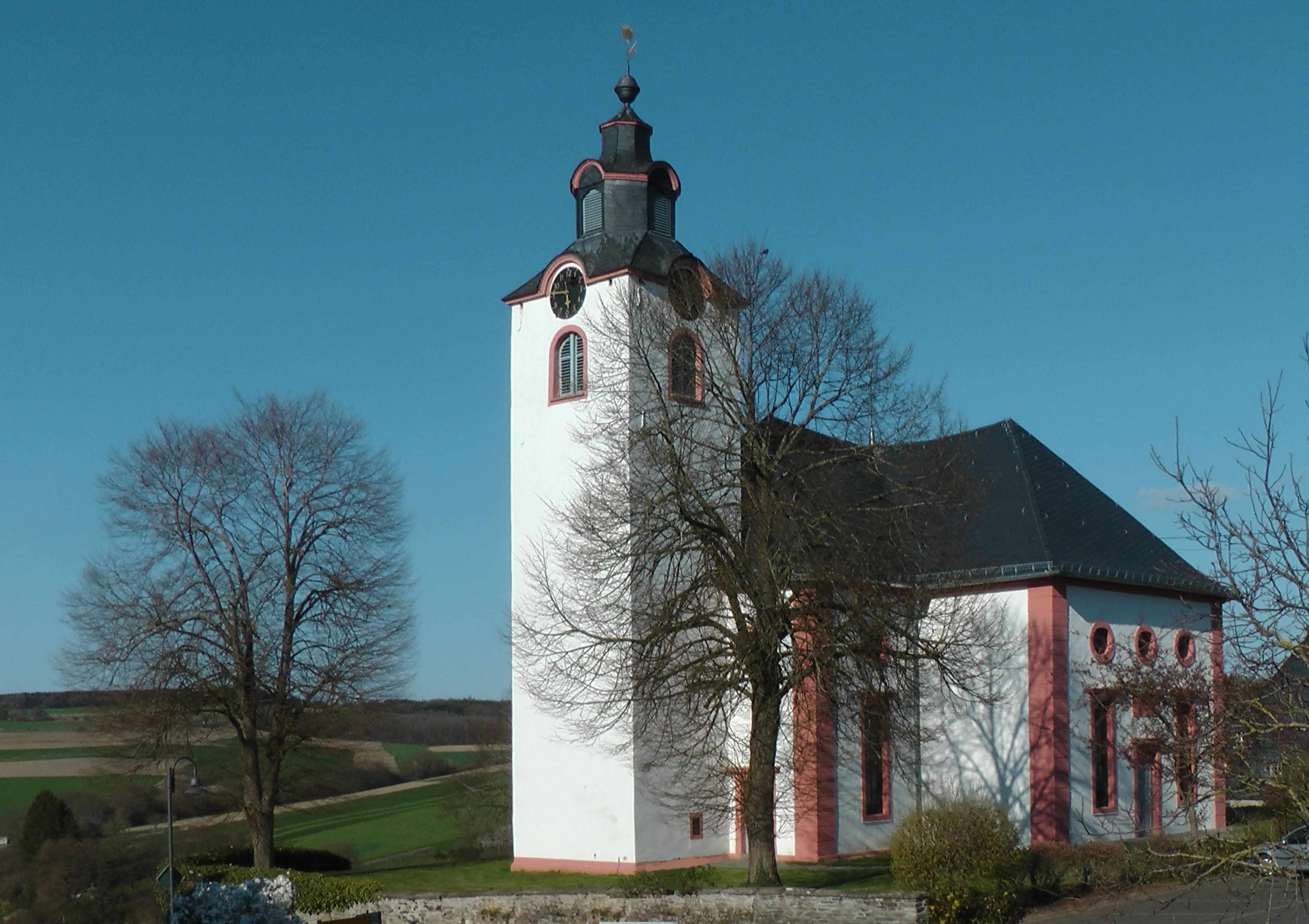 Protestant church Kleinich (Gernamy, Rhineland-Palatinate, Hunsrück) from the west.